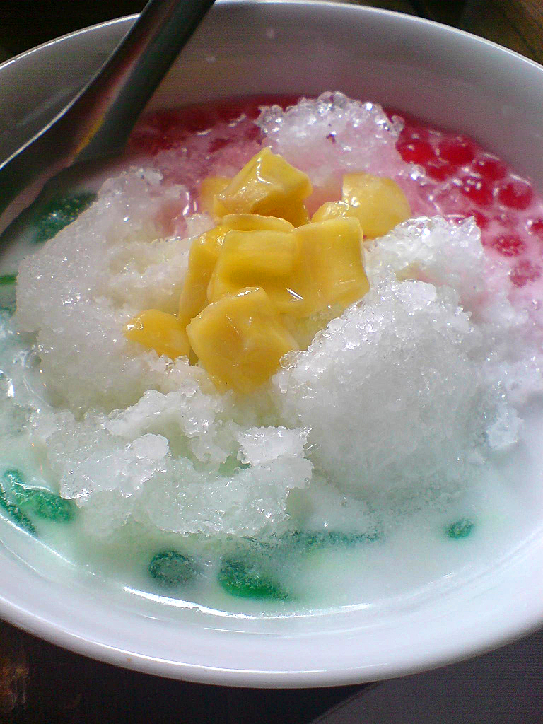 Shaved ice in Indonesia, sliced jackfruit, cendol, and tapioca pearls in coconut milk and sugar